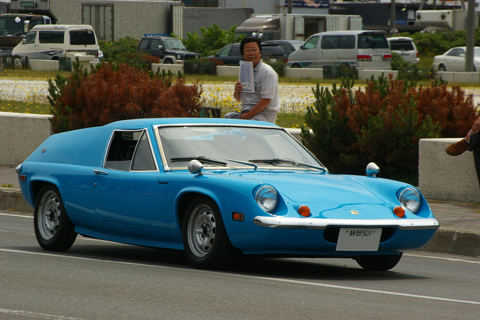 Lotus Europa, Northern Load Car festival in Wakkanai city.